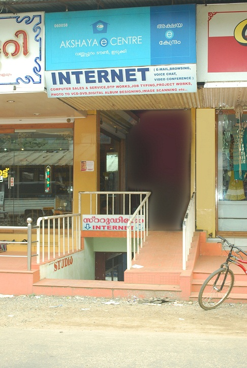 Jyothish Kumar S.G E-NET AKSHAYA CENTRE-060057 Vannappuram Town, Idukki Dt Kerala-685 607 XIII/219 Mundattu Building, Temple Jn.Vannappuram Initiated by : KSITM, Dept. Of IT, Govt. Of Kerala Approved Under : CSC Scheme , Ministry Of IT, Govt. Of India-KL020600405 Mob:-9447246273, 04862 247166 Mob:-9495247166, 04862 240166 Resi.:- 04862 245166 Latitude, Longitude: 9.991837984403938, 76.7893722653389